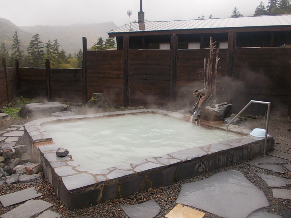 Hot spring serving as an open-air bath at the Taisetsu-Kogen Onsen spa, Kamikawa, Hokkaidō, Japan